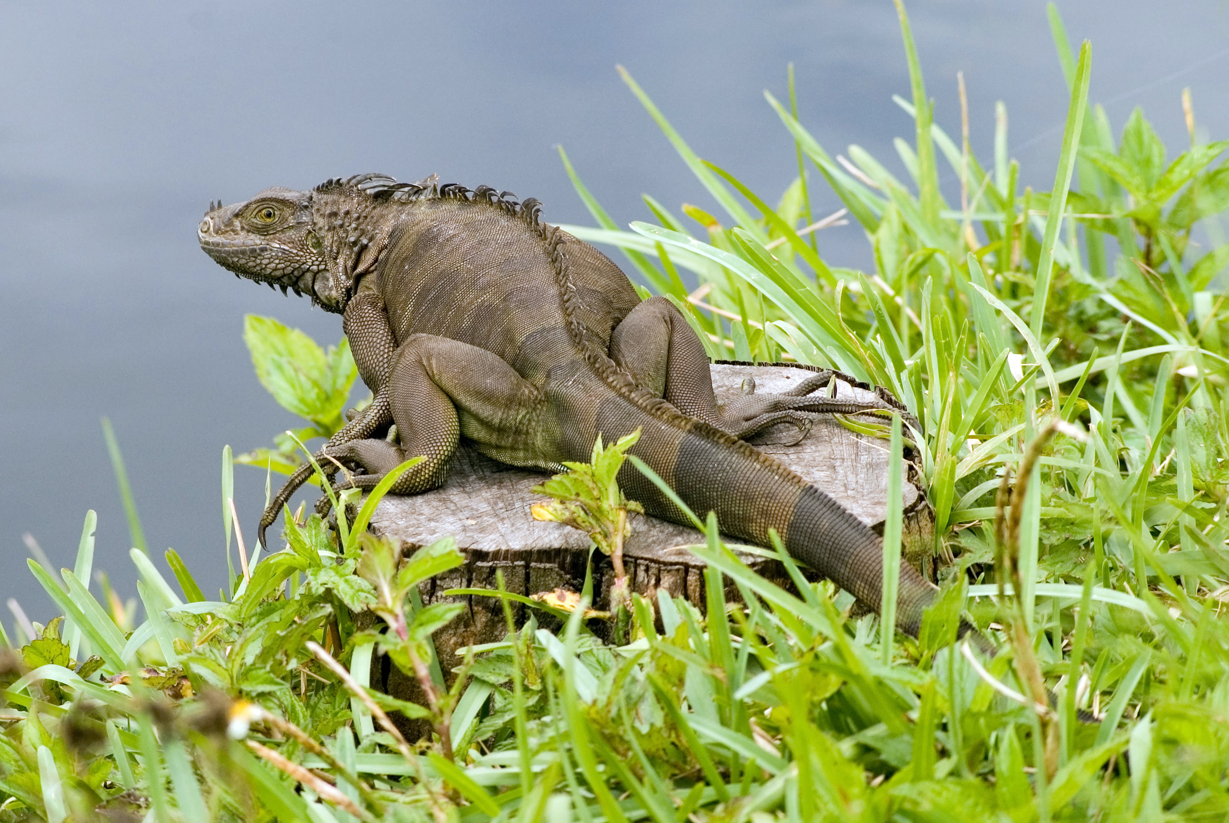 Green iguana (Iguana iguana) showing darker phase on a cool day in south Florida.